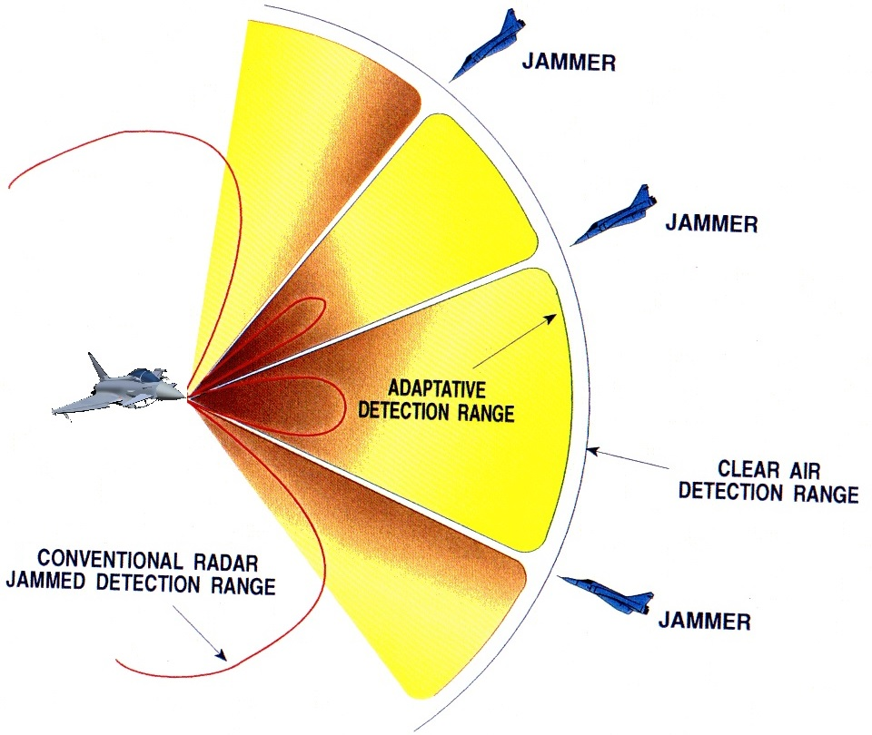 Jammer nulling with an aesa radar